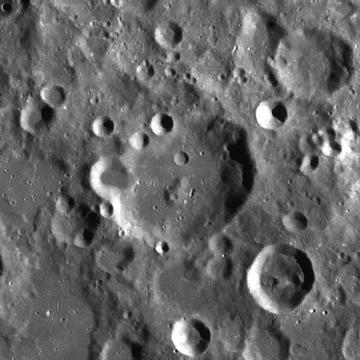 Lodygin lunar crater - LROC image